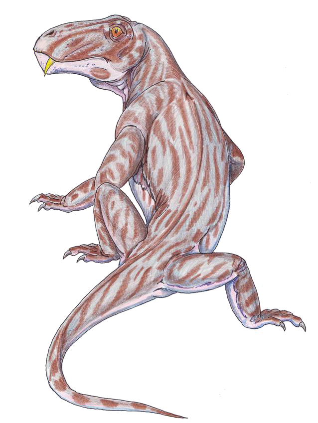 Australosyodon- reconstruction autor - Bogdanov